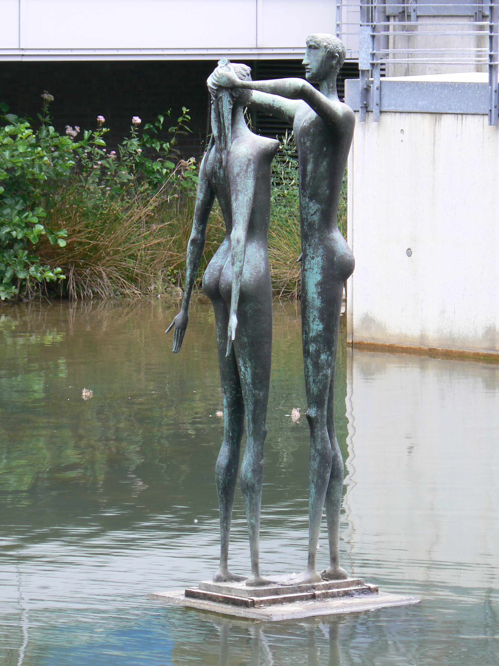 sculpture Cantico dei Cantici (1957) by Marcello Mascherini in the sculpturepark Paracelsus-Klinik in Marl/Germany